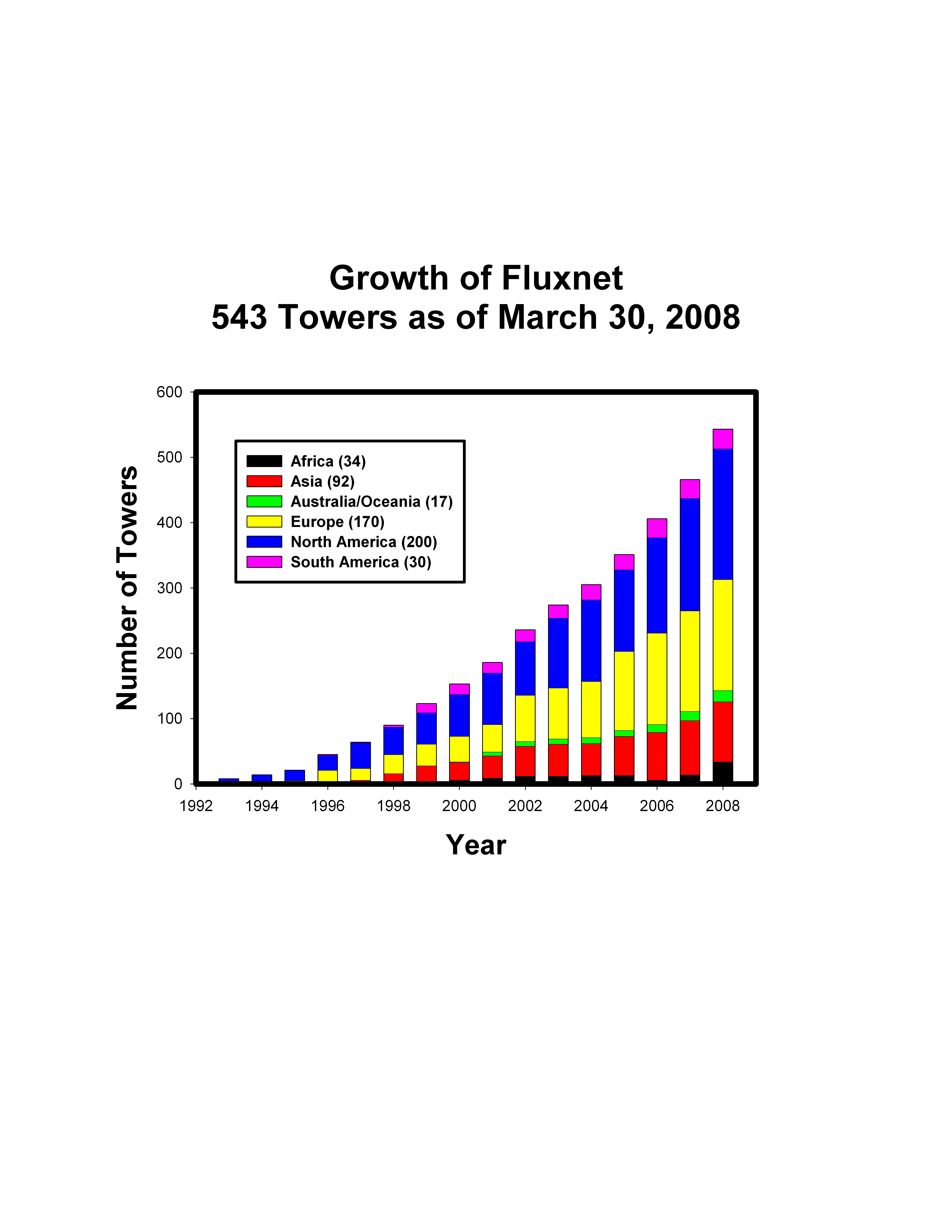 The increase in number of Fluxnet sites from 1992-2008